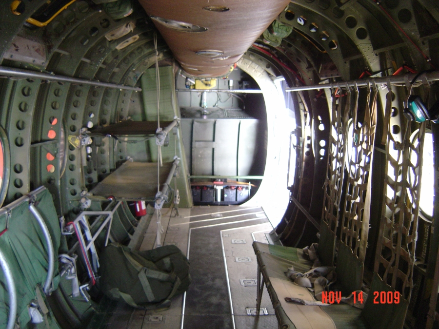 A picture of the only H-21 still flying at the Classic Rotors Museum Hanger. (Inside View)